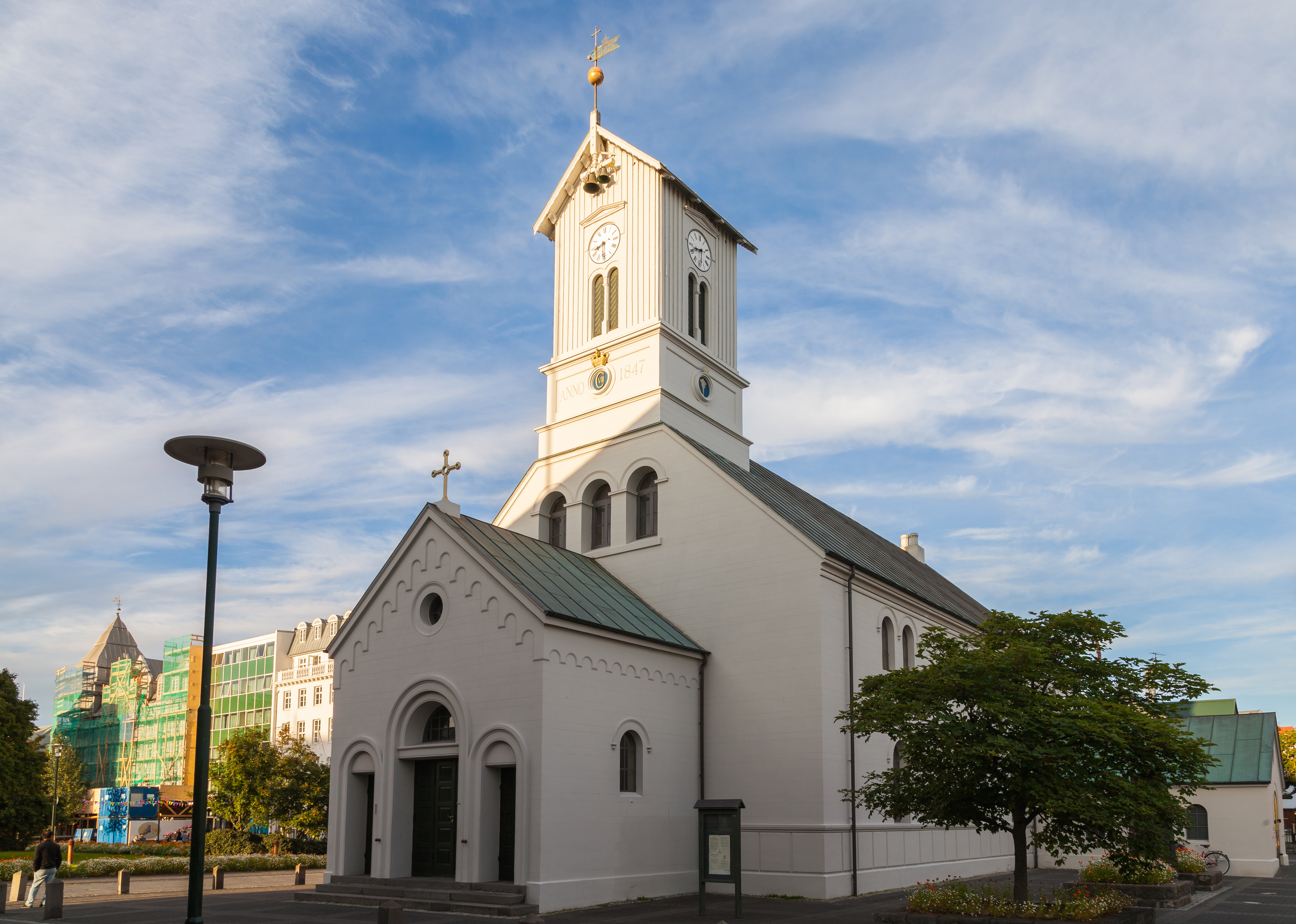 Reykjavik Cathedral, Reykjavik, Capital Region, Iceland